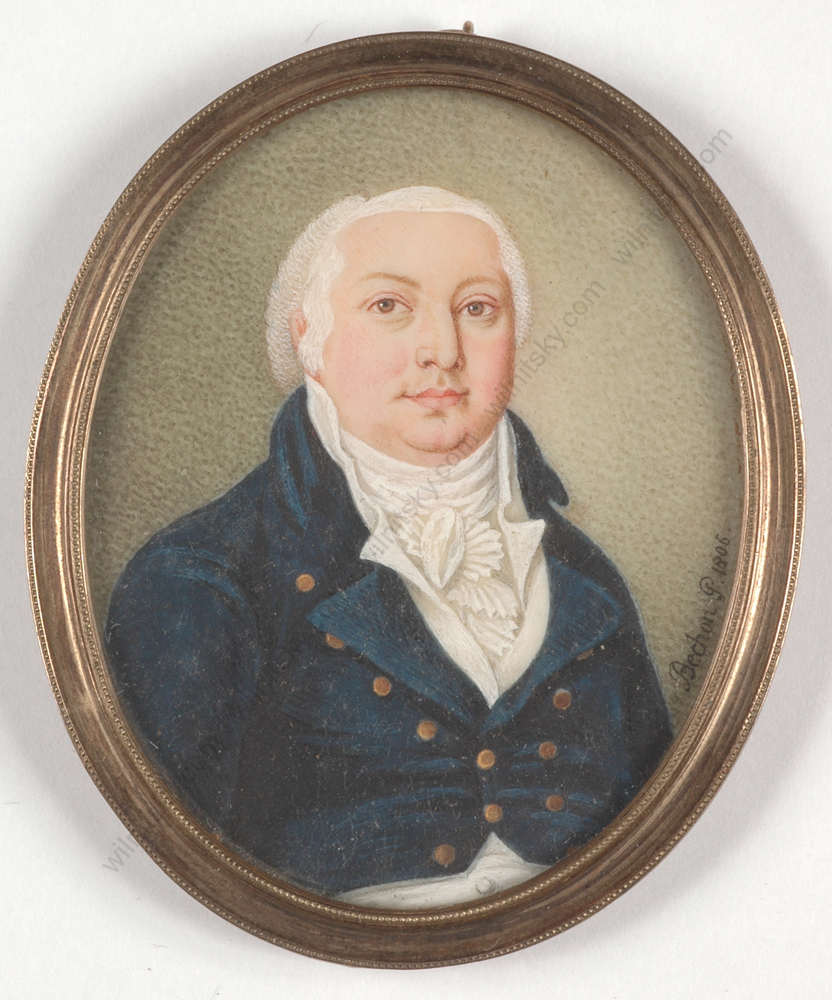 Portrait of a Polish gentleman